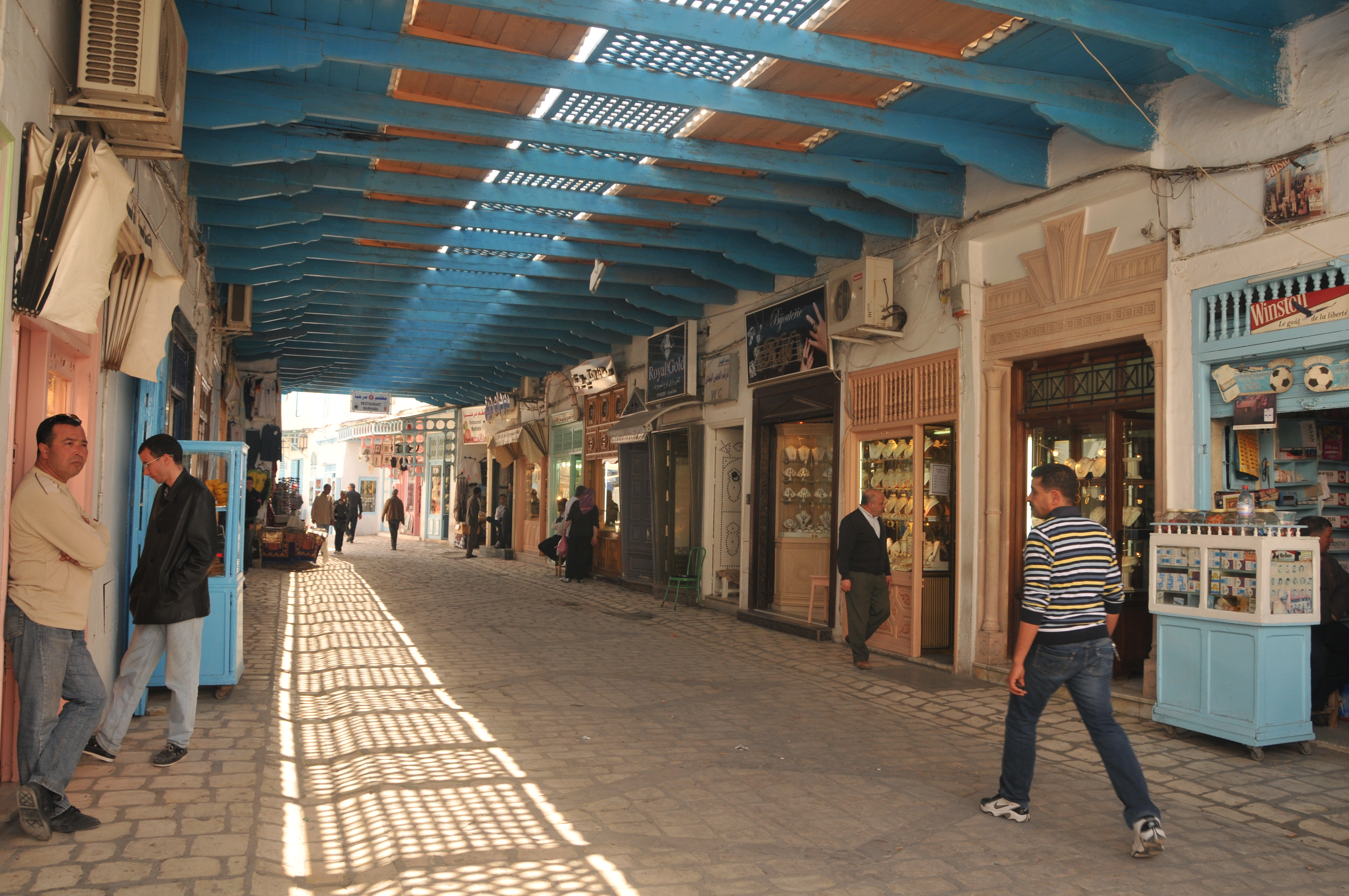 Gold souq in Kairouan, Tunisia